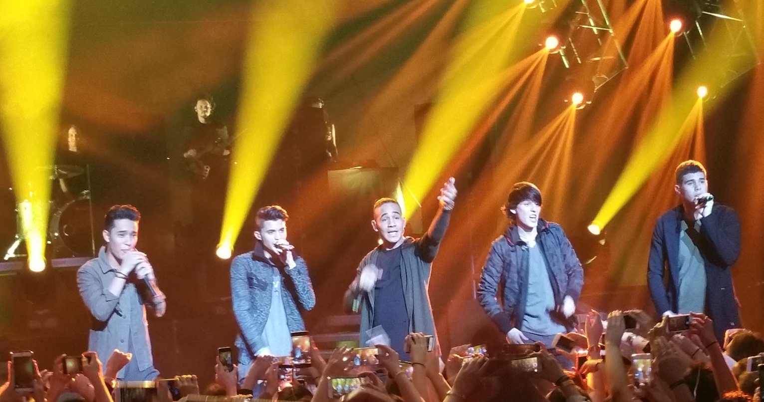 CNCO boy band (First winners of Univision music reality show La Banda), debut solo concert Jan. 30, 2016, at the Fillmore Miami Beach, Jackie Gleason Theater. Left to Right: Joel Pimentel (Mexico), Erick Brian Colon (Cuba), Richard Camacho (Dominican Republic), Christopher Velez (Ecuador), Zabdiel de Jesus (Puerto Rico).